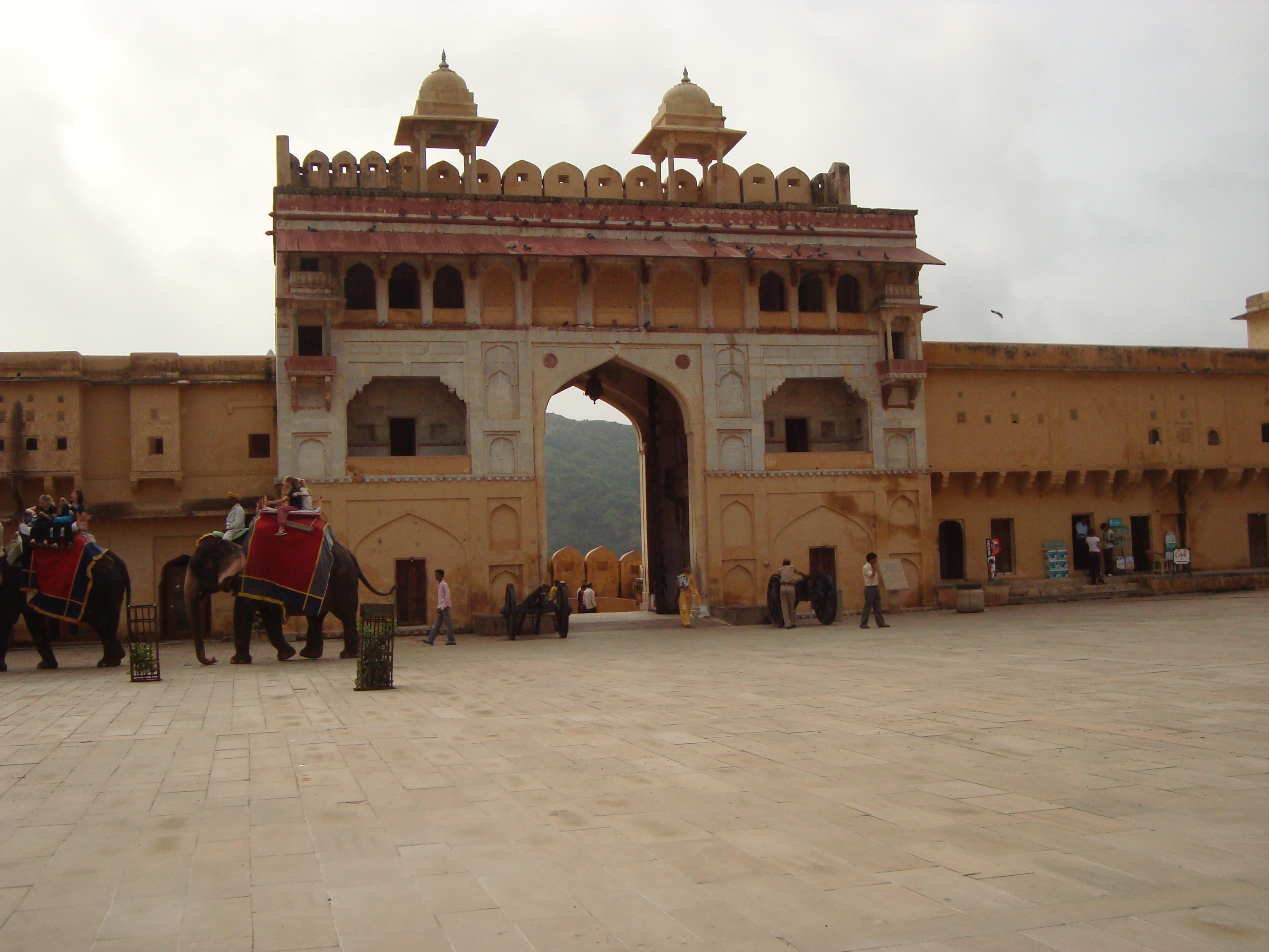 Suraj Pol (Sun gate) of Amber Fort. Main entrance (towards east) to the Fort. Entry though this gate, leads to the Jaleb Chowk. This photograph is taken from Jaleb Chowk.